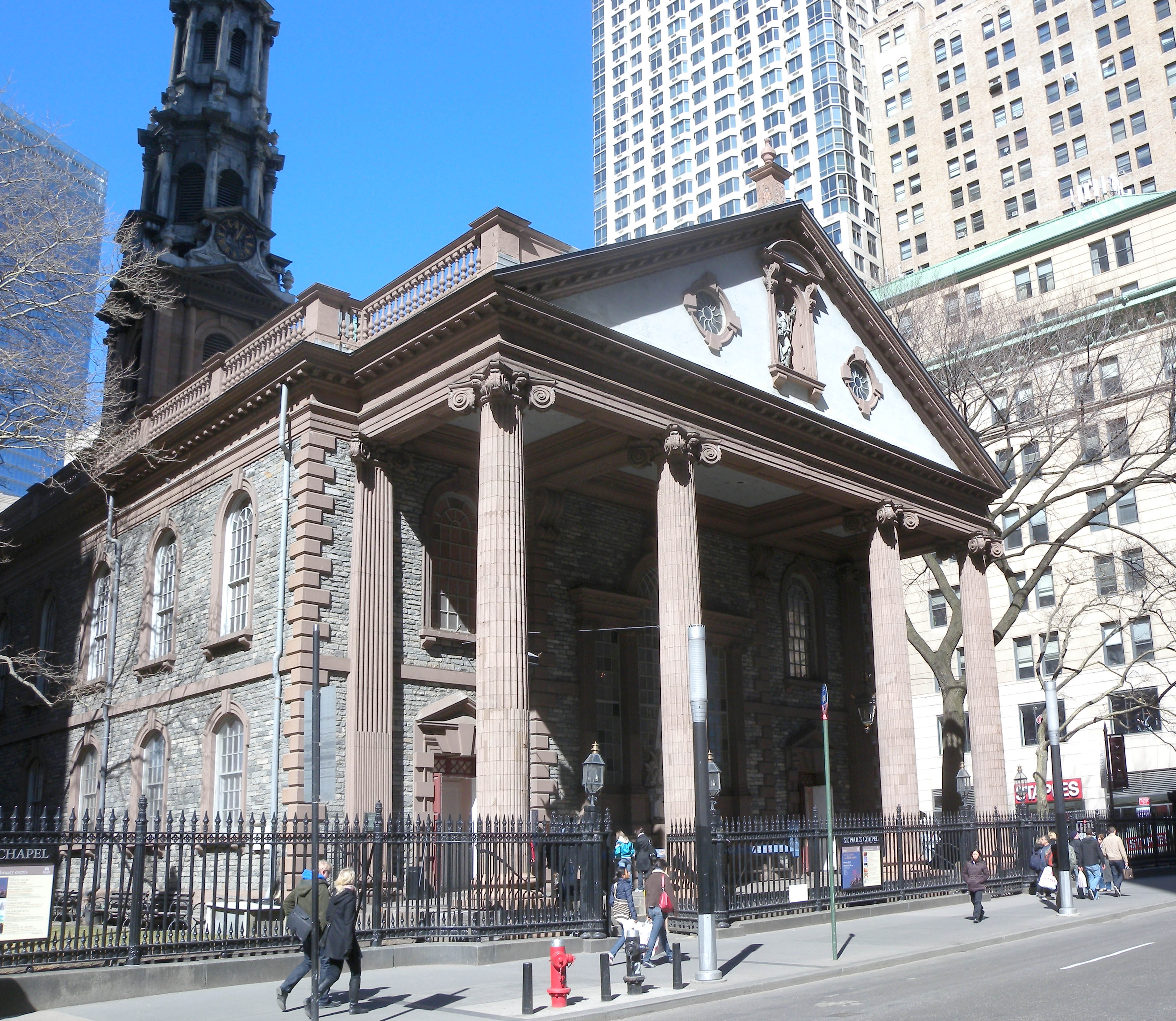 Looking north across Broadway at St Paul's Chapel on a sunny midday with the front part lit and the steeple in shade.